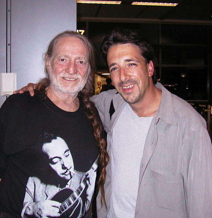 Robert Bluestein is an artist who is known as much for his grasp as he is for his actual reach. Talented in Photography and Painting, his mediums of art also include the Etch-a-Sketch, which he has become well known for and has had a wide degree of publicity. His interests also include all fields of History, Art History and Archaeology. Bluestein's photography is available by request and is a member of the ASMP as well.